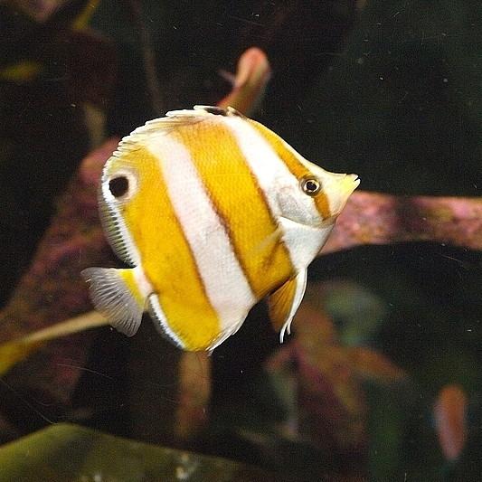 Brown-banded butterflyfish Roa modestus (Temminck and Schlegel, 1844)